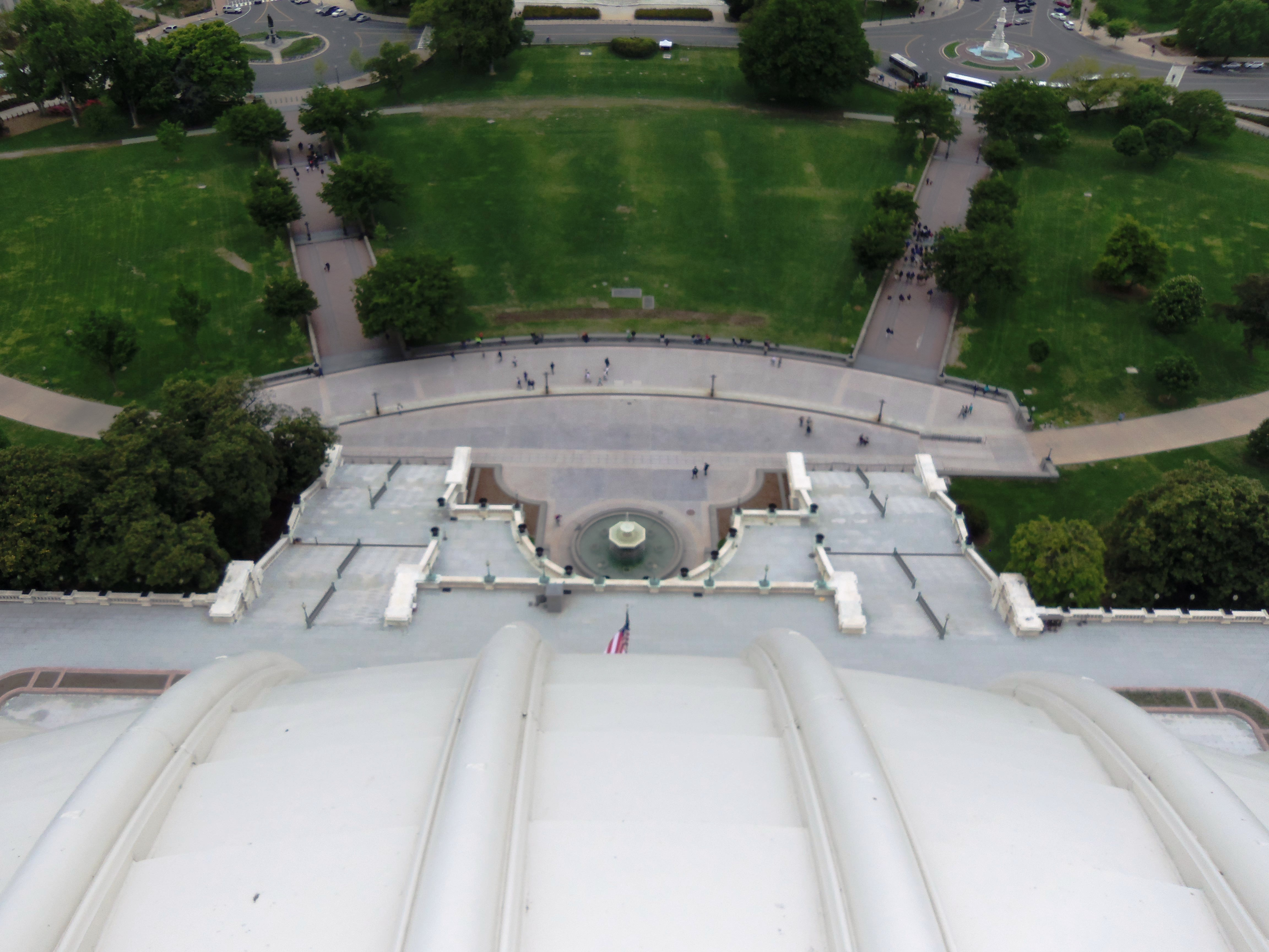 The west lawn of the U.S. Capitol from the top of the dome.